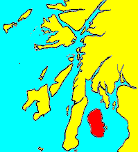 Drawn by me